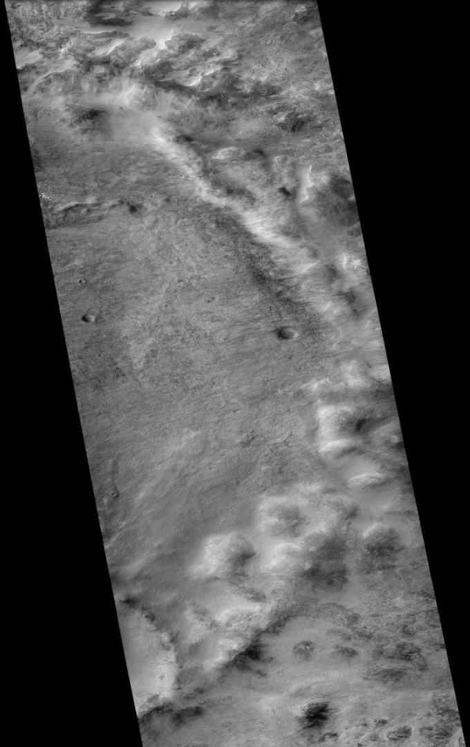 East side of Douglass Crater, as seen by CTX